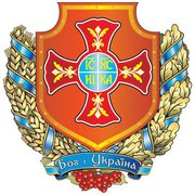 Dep.Kap.